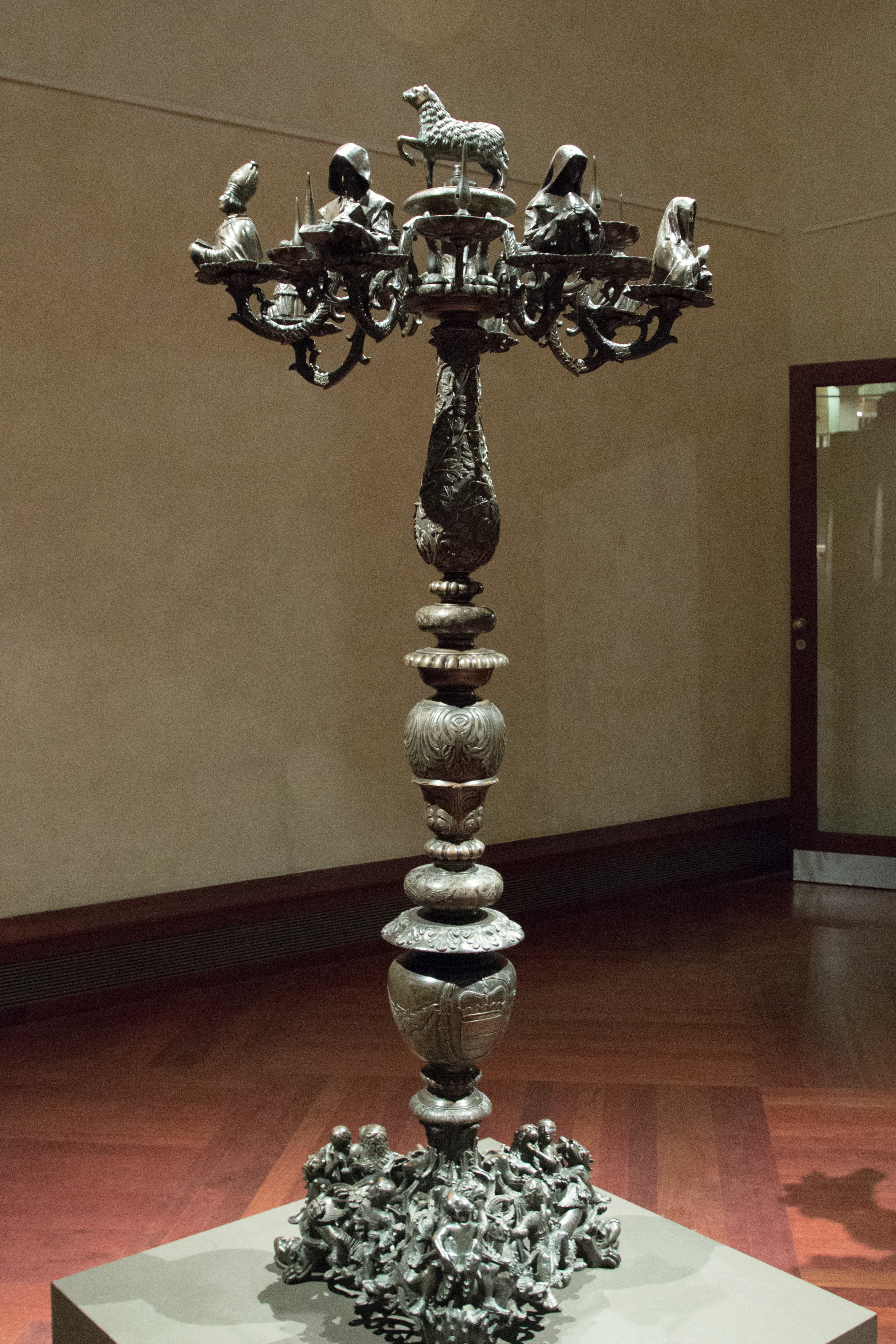 The "Milan or Jerusalem Candelabrum". Leg: Meuse region, around 1150. Brachest: Prague 1641, bronze. Prague, St. Vitus Cathedral, chapel of St. John the Baptist (chapel of St. Anthony). Candelabrum was part of the spoils of Vladislav from Milan year 1162.